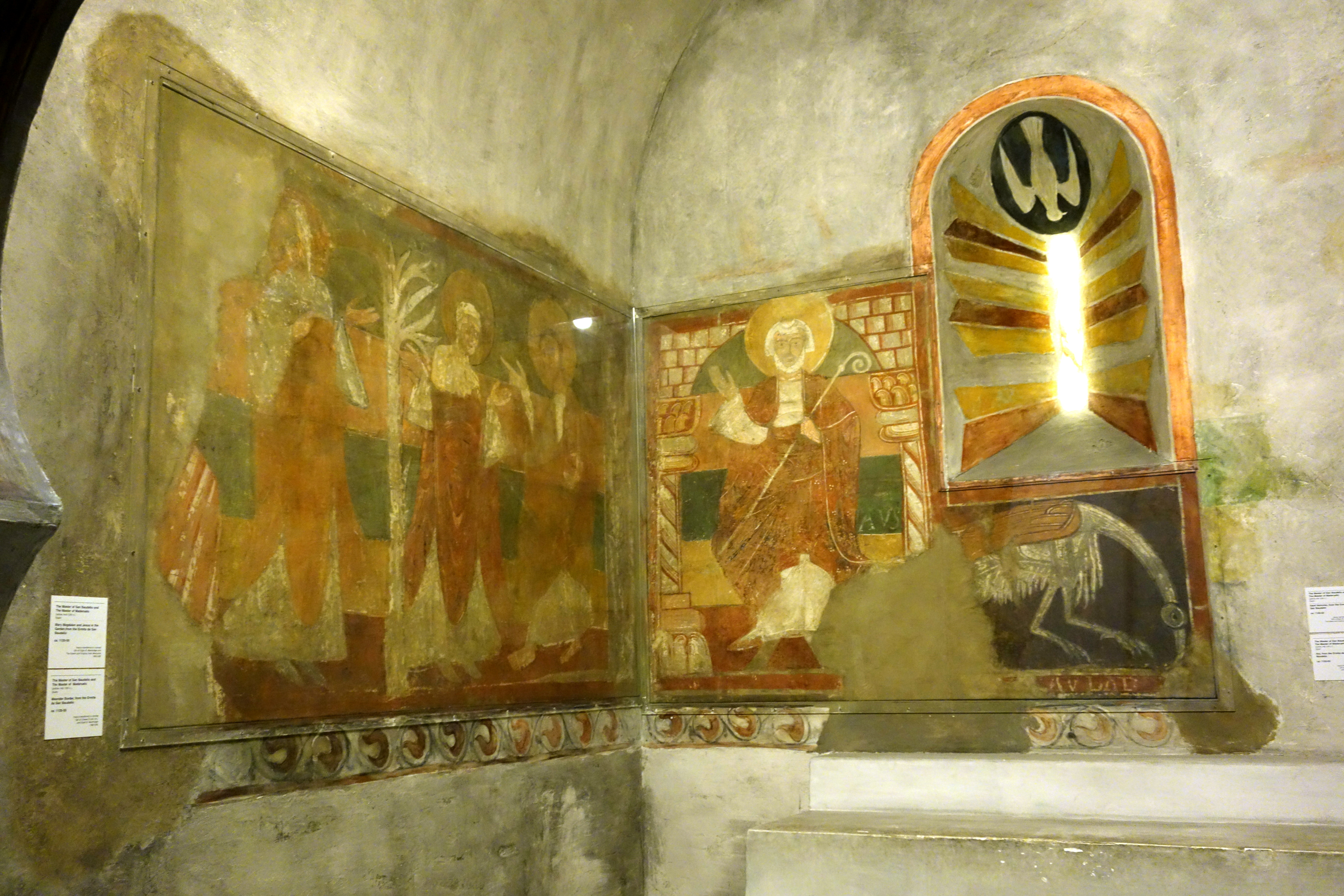 Exhibit in the Cincinnati Art Museum, Cincinnati, Ohio, USA. This artwork is in the public domain because the artist died more than 70 years ago.